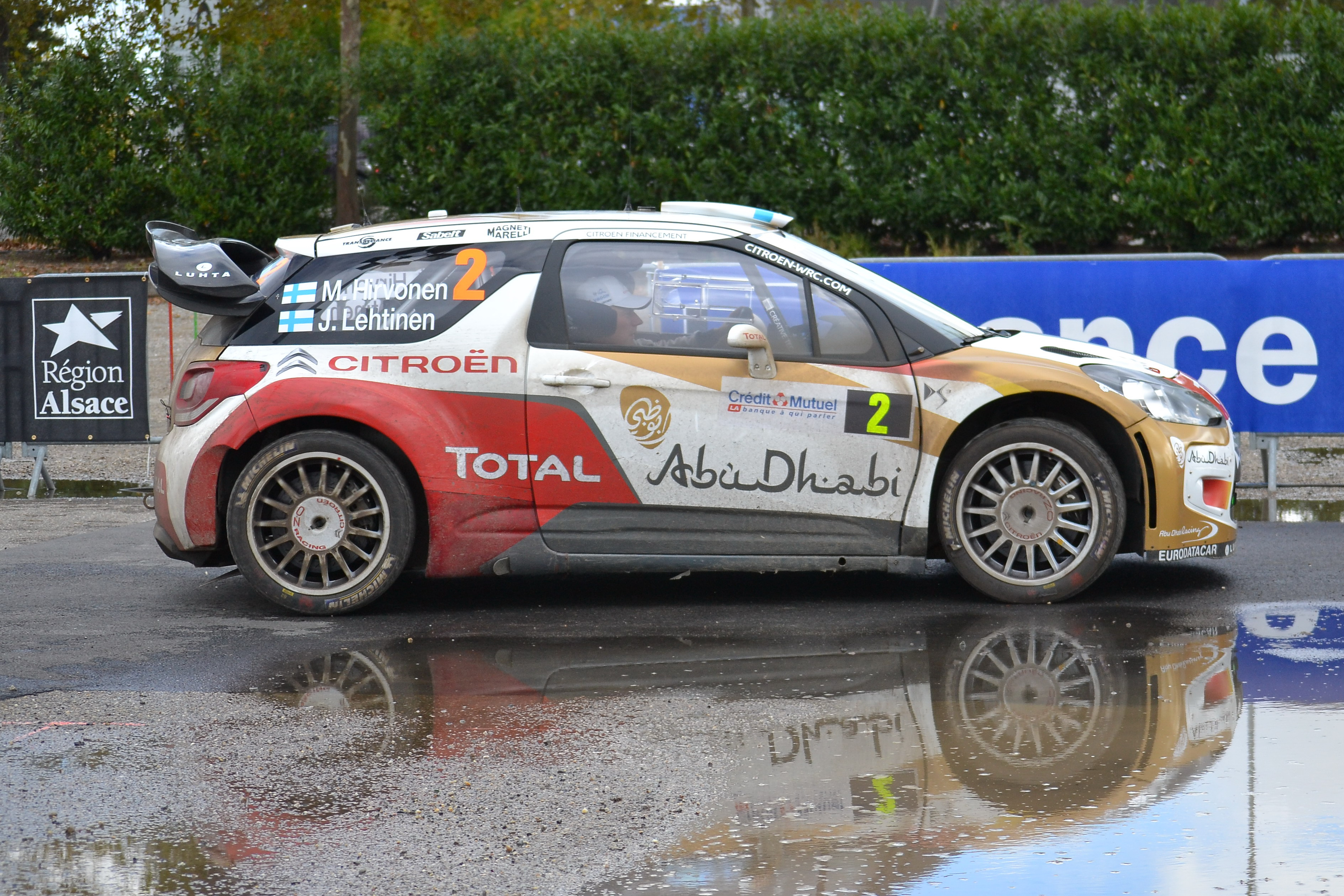 Mikko Hirvonen / Jarmo Lehtinen in parc d'assistance of Colmar during the Rally France-Alsace 2013.